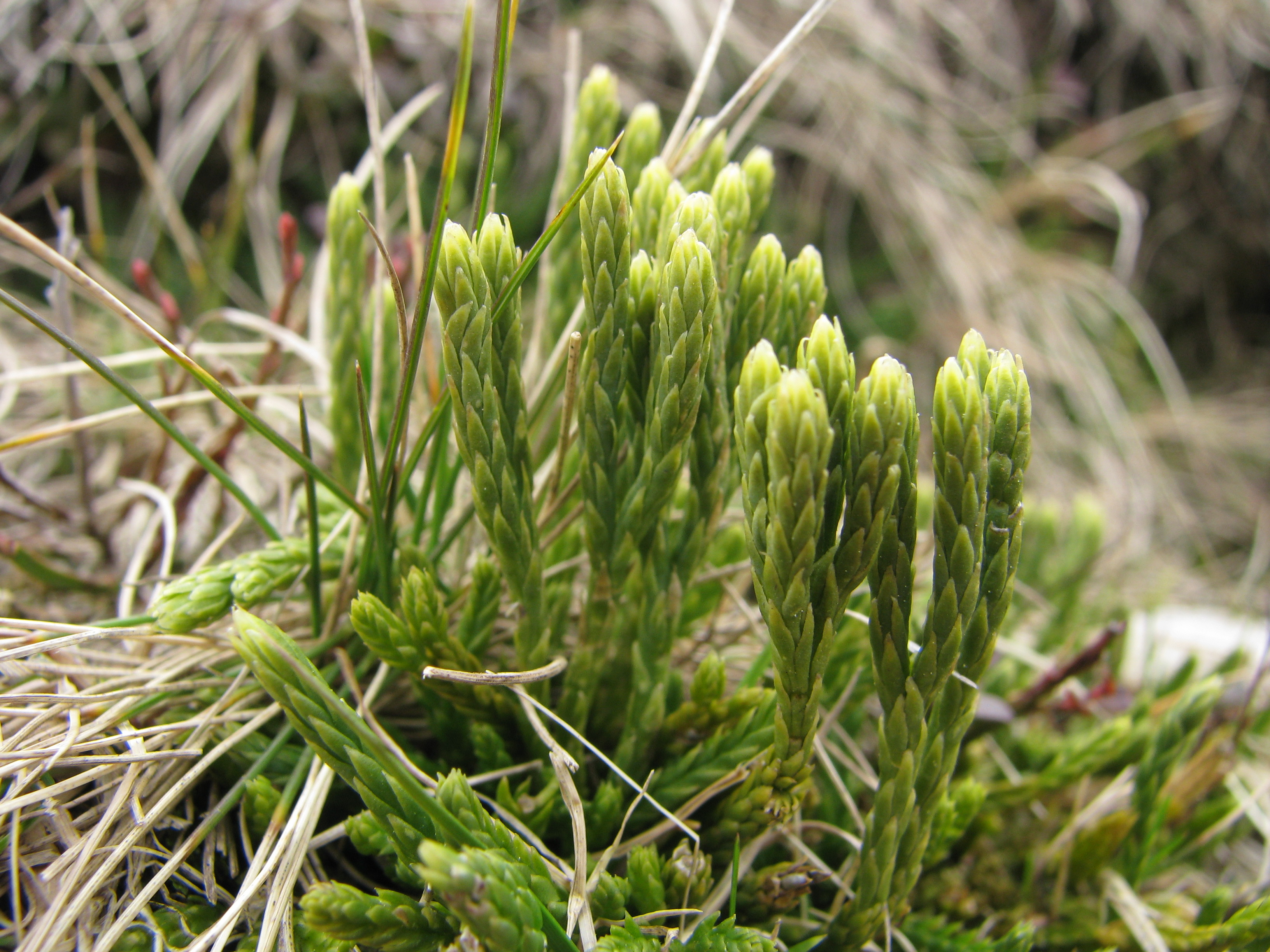 Diphasiastrum alpinum